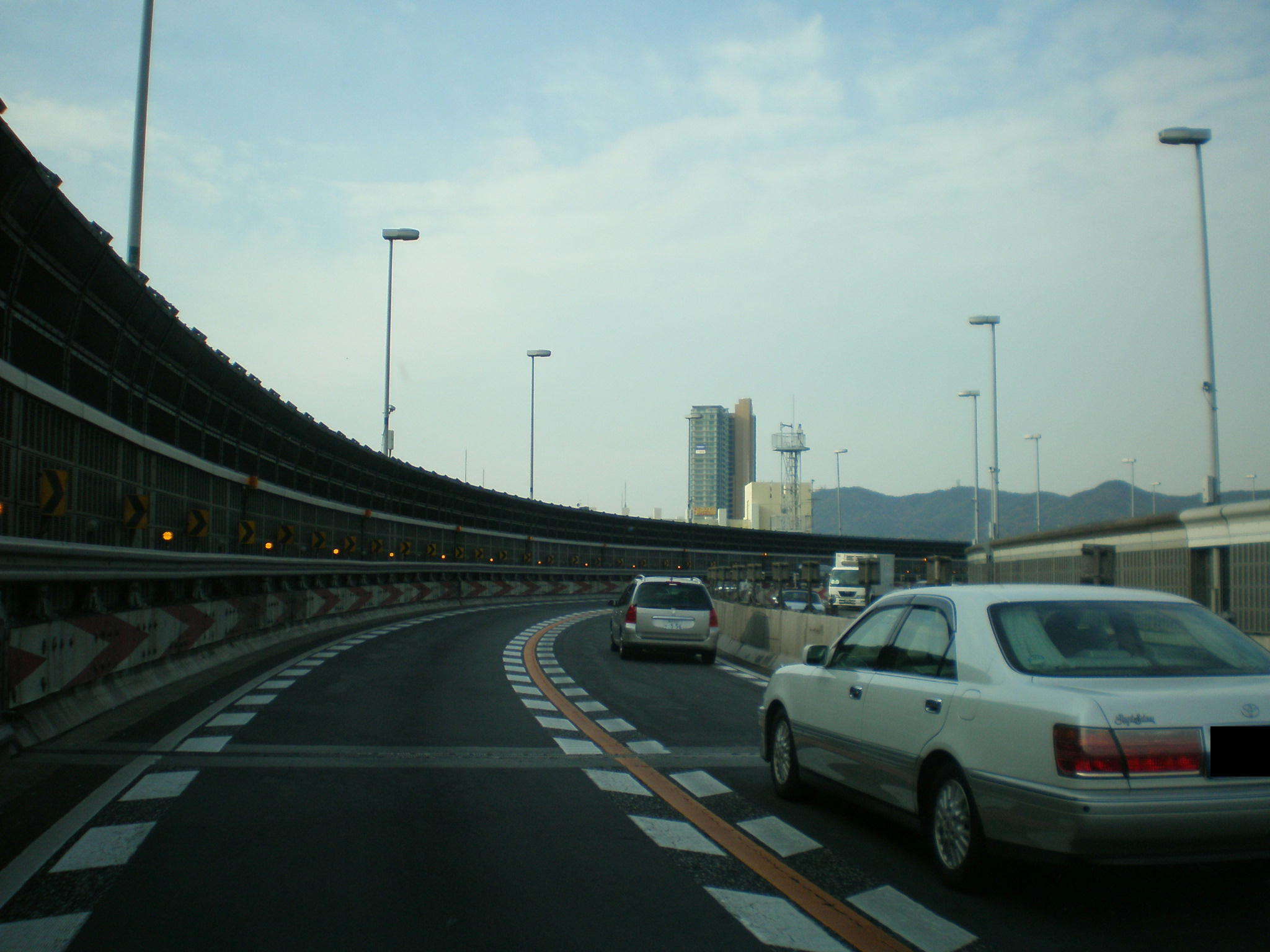 Wakamiya curve from Hanshin expressway